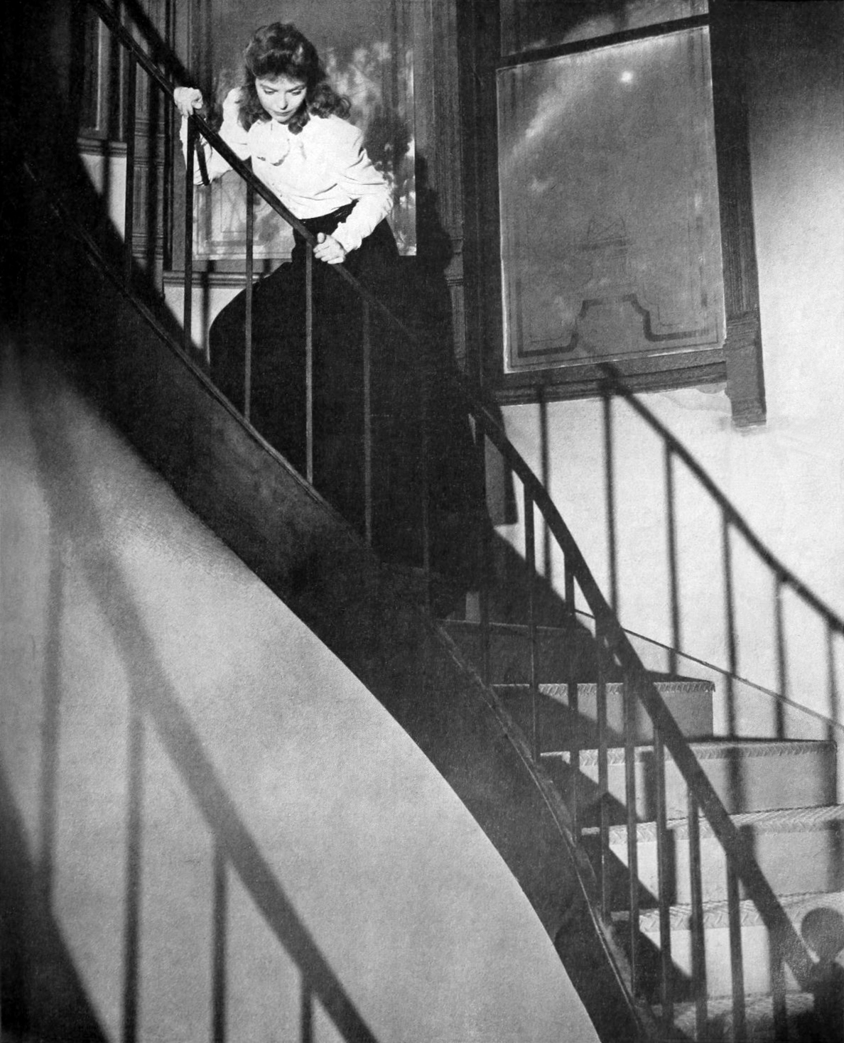 Promotional still of Dorothy McGuire in the 1946 film The Spiral Staircase, published in New Movies, the National Board of Review Magazine